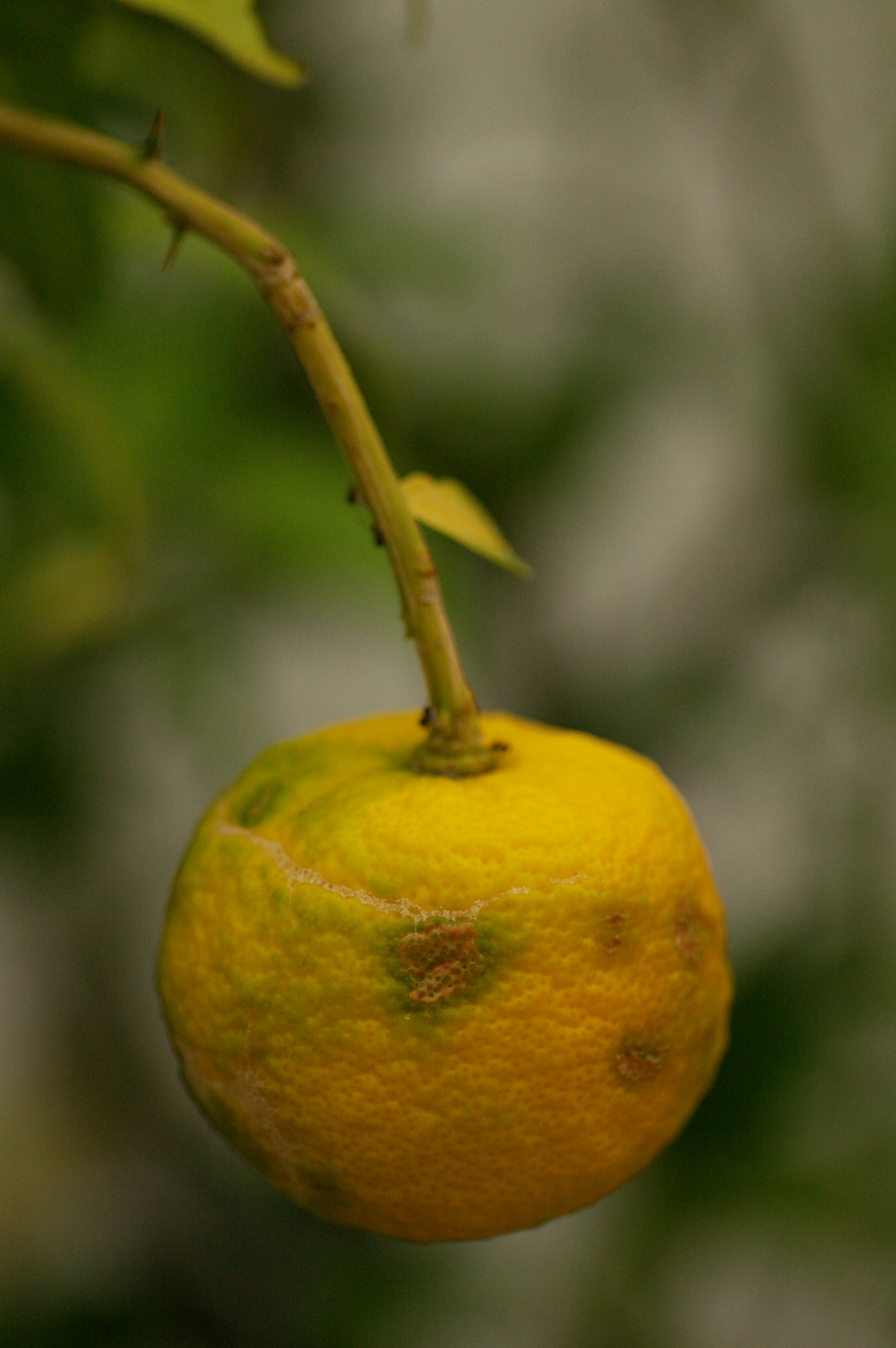 Yuzu fruit. Photo taken in Japan by Flickr user: titanium22. From